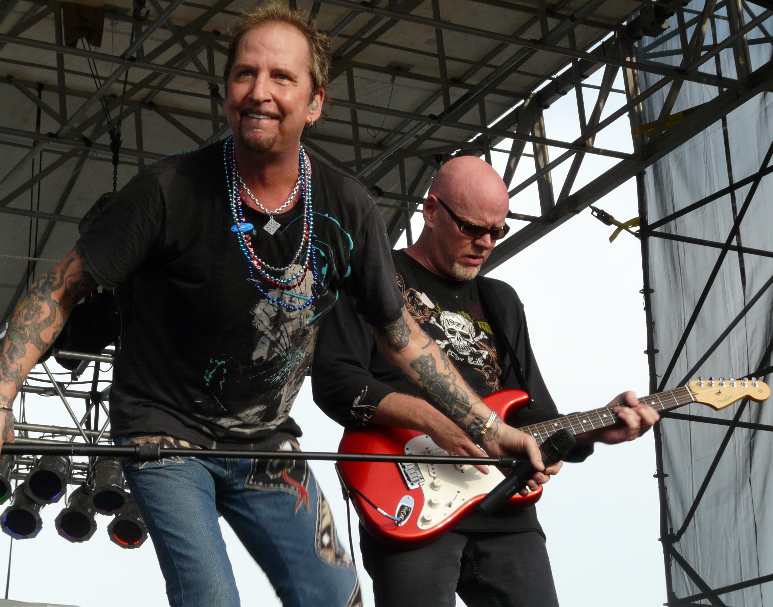 Great White at the Moondance Jam on July 11, 2008 in Walker, Minnesota